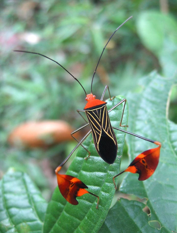 A leaf-footed bug Anisocelis flavolineata[1] (Rhynchota: Coreidae). The specimen was found near Santa Fé (Veraguas Province, Panamá). It did stretch-exercises with its 'winged' back legs, probably to attract females.